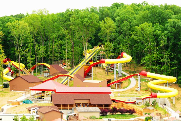 An overview picture of Wildebeest.